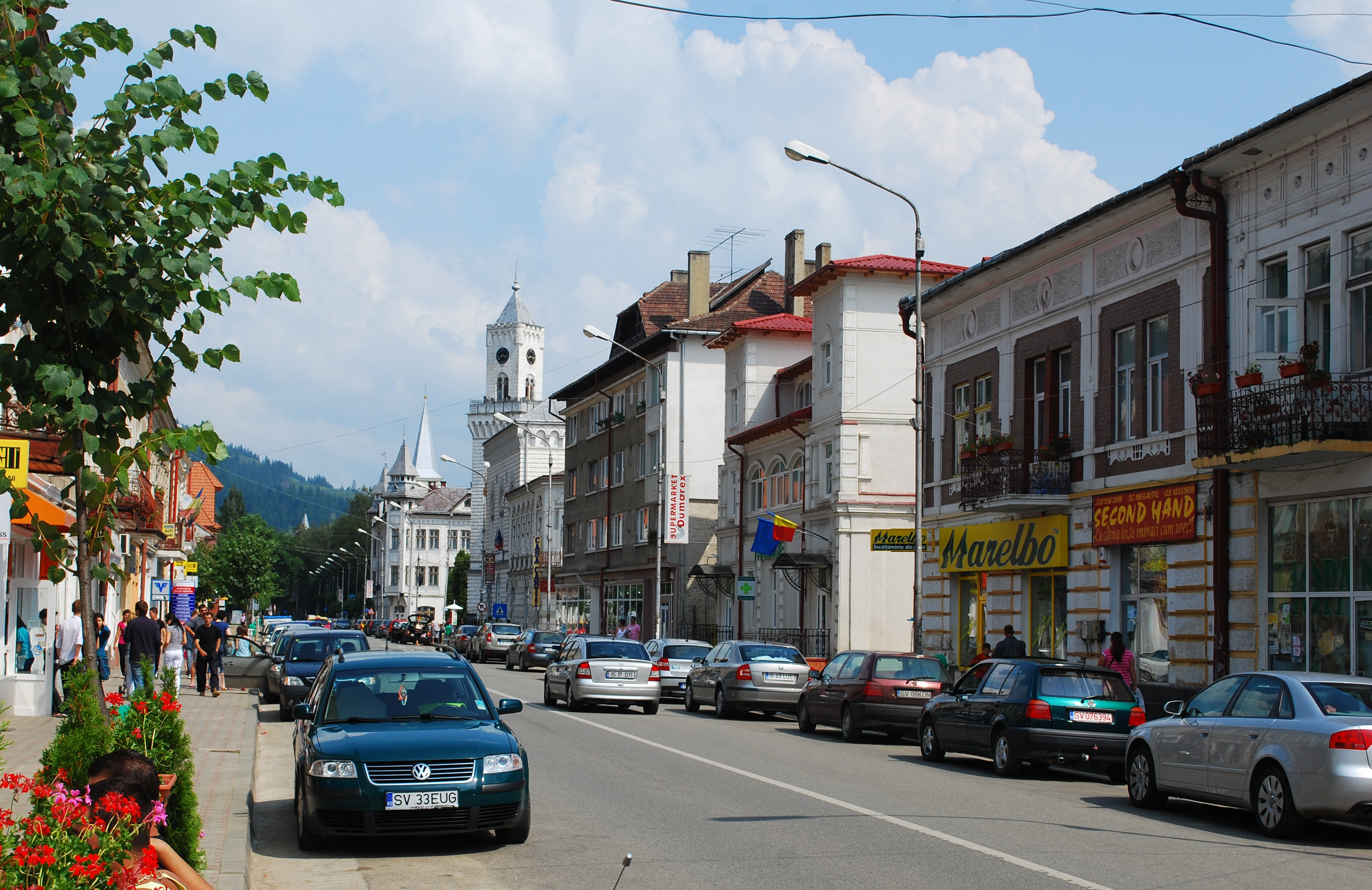 A street in Vatra Dornei, Romania